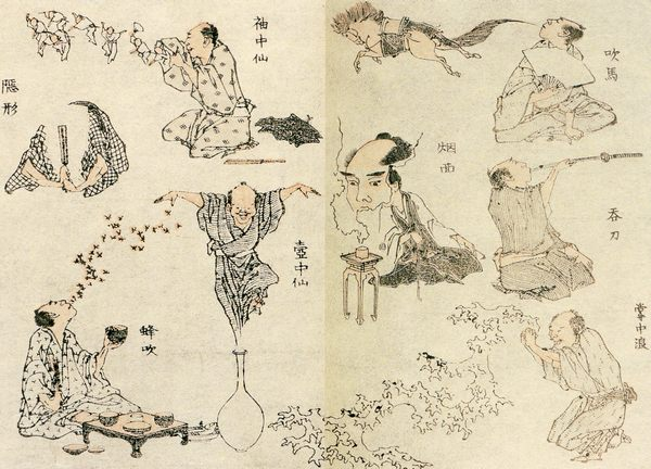 "Japanese magic" (幻術) from the Hokusai Manga (北斎漫画)